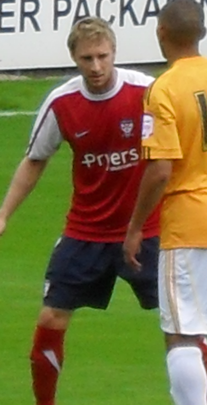 Chris Carruthers playing for York City against Hull City at Bootham Crescent, York on 17 July 2010